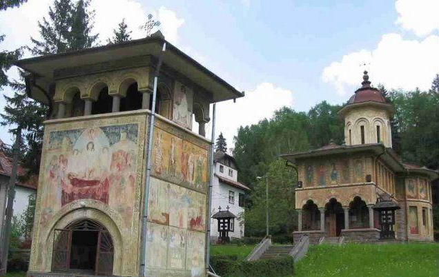 Harghita County, Băile Tuşnad, Orthodox Church